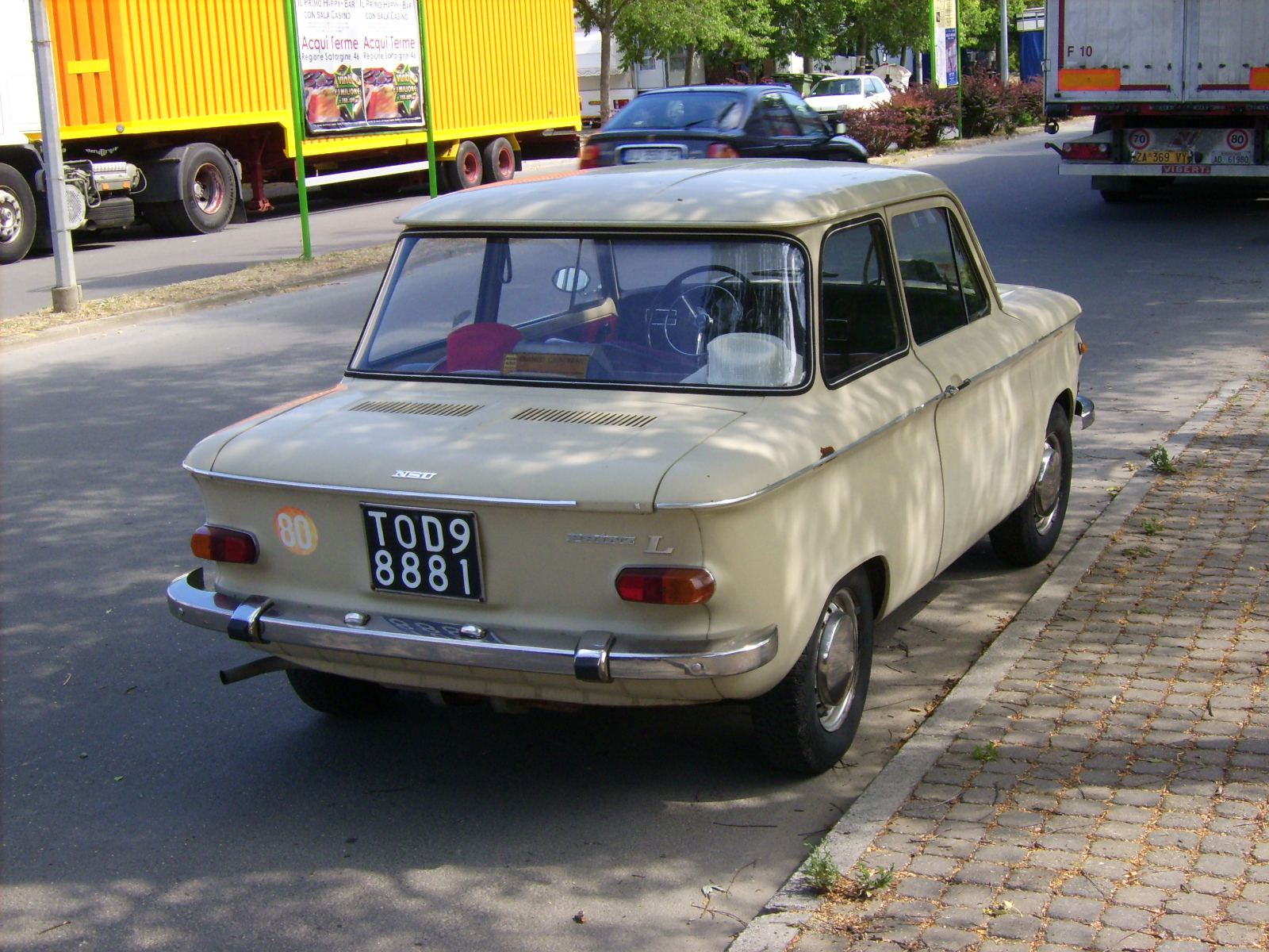 A nicely mantained NSU Prinz L at Acqui Terme (Piemonte, NW Italy). Praktica Luxmedia 6203. 8.7.2007